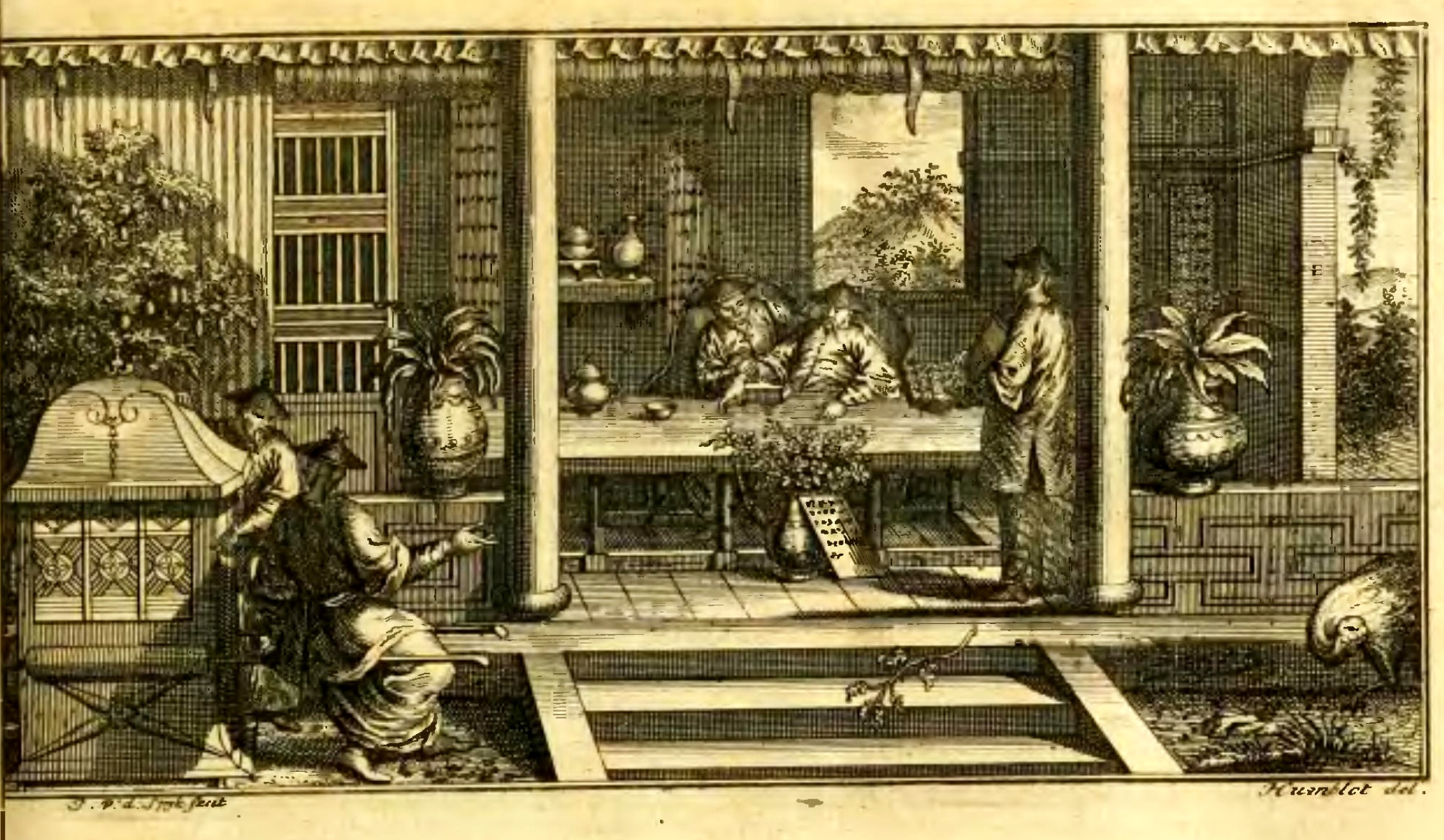 An engraving from La Haye's edition of the Description of China, Vol. III, p. 1. A Chinese doctor visiting an invalid Mandarin (scholar/bureaucrat). His litter or sedan chair stands nearby.